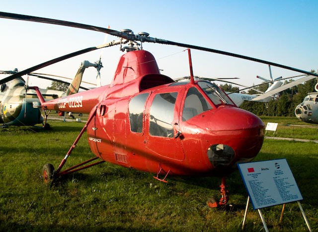 Mi-1M at an aviation museum in Kiev